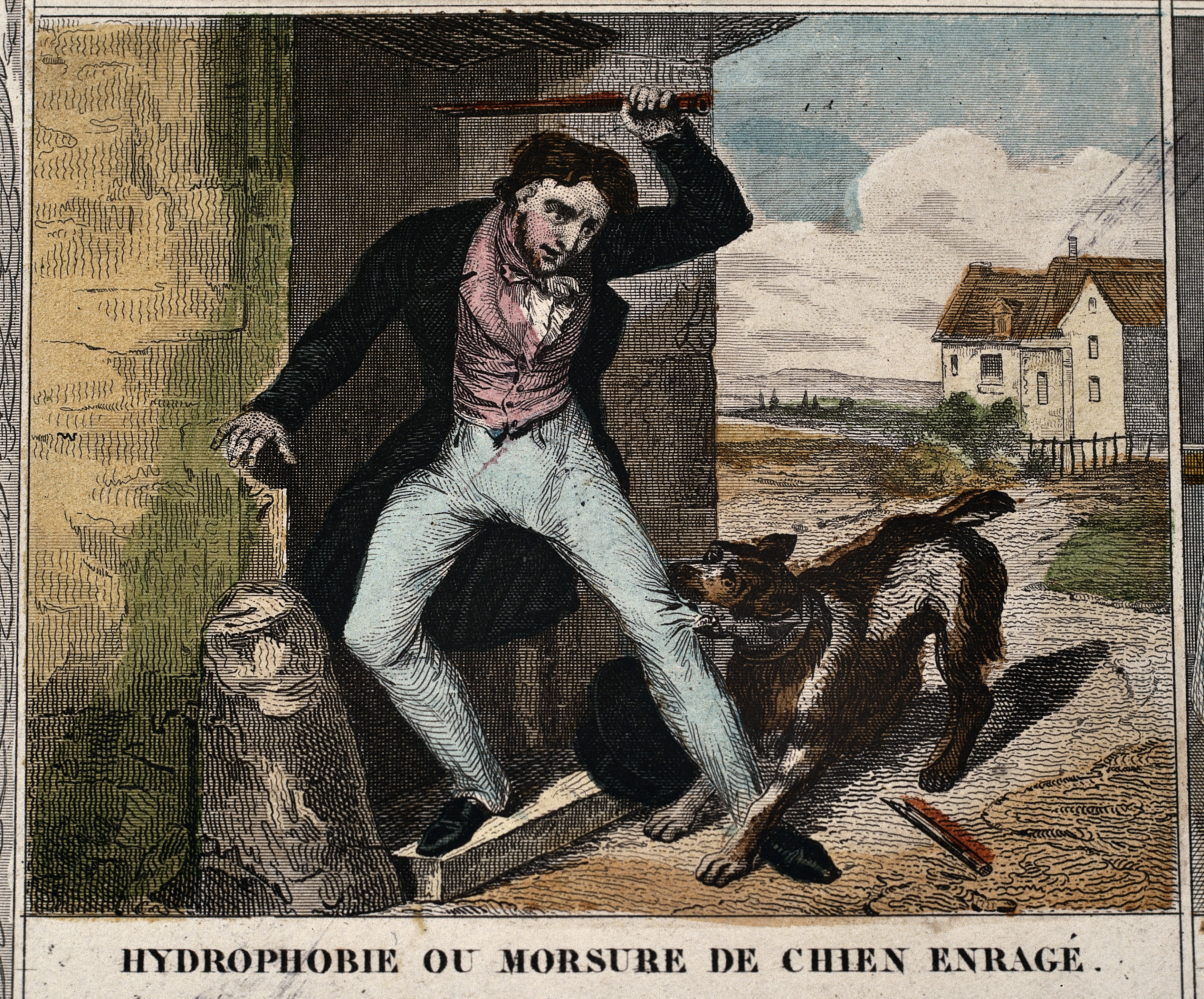 A man using a stick to try and fight off a rabid dog who had bitten his trousers Iconographic Collections Keywords: Frederic Laguillermie; Rainaud.; Rabies